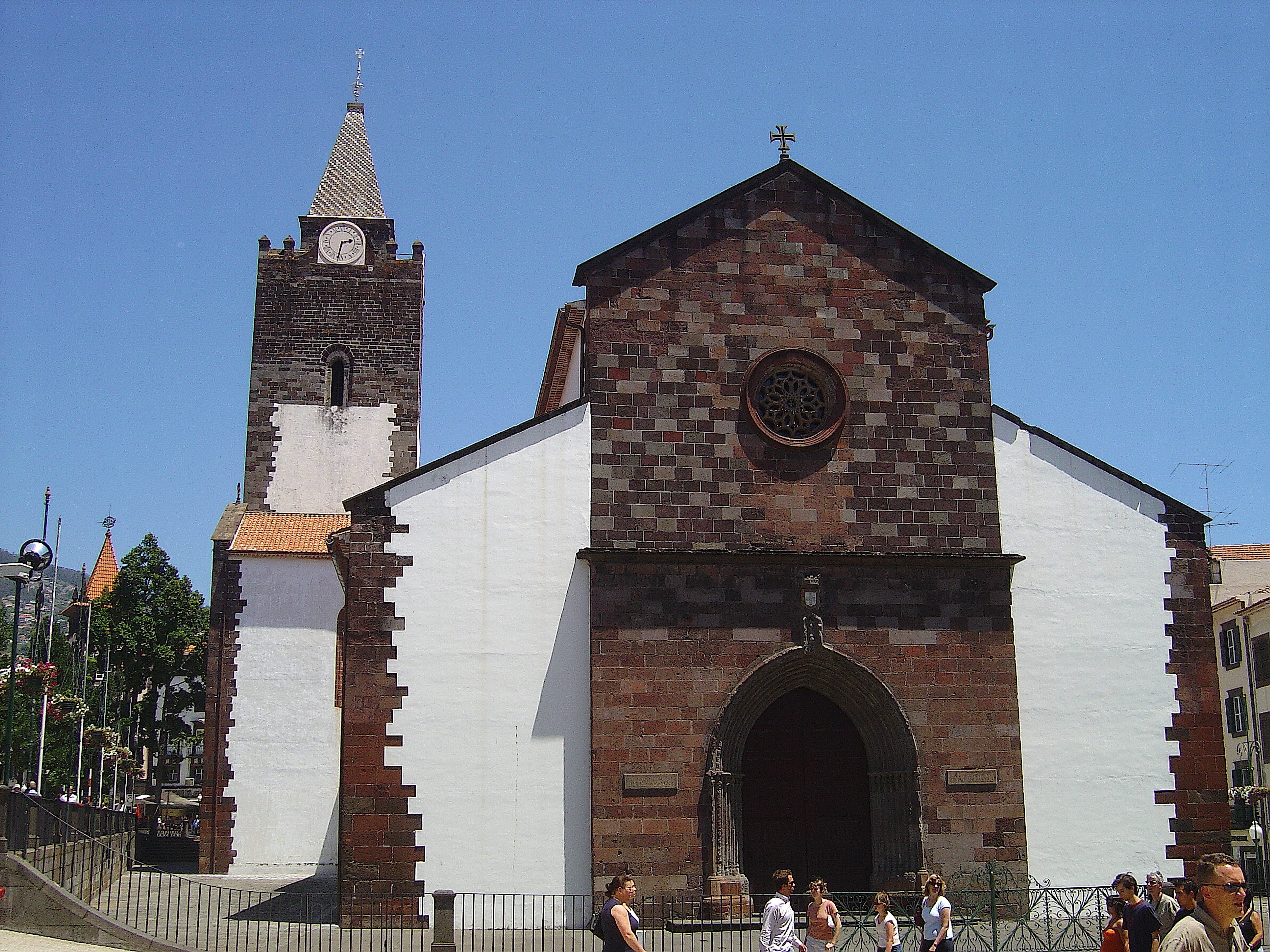 Sé do Funchal See where this picture was taken. [?]